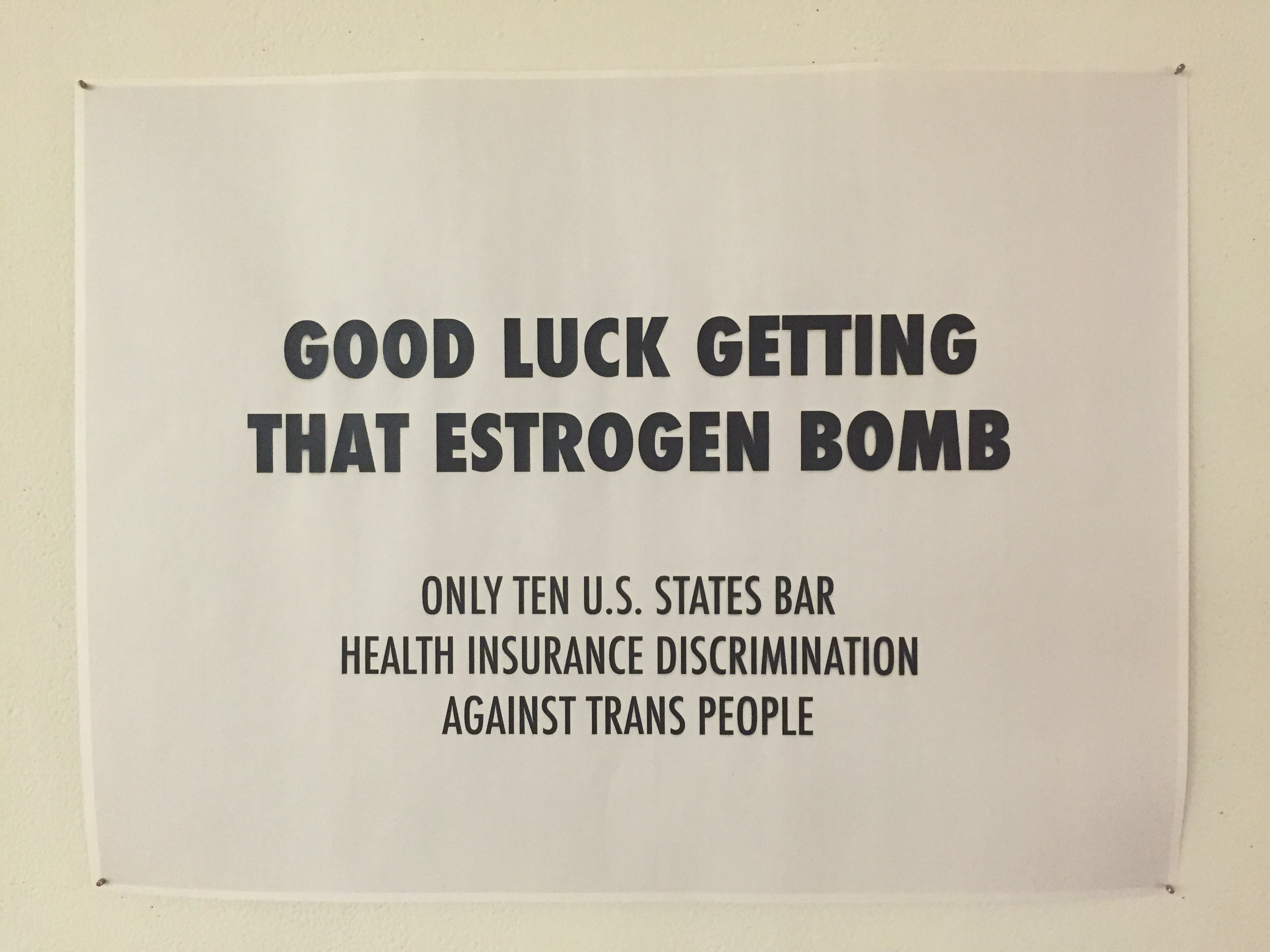 Anonymous response to the Guerrilla Girls at MCAD